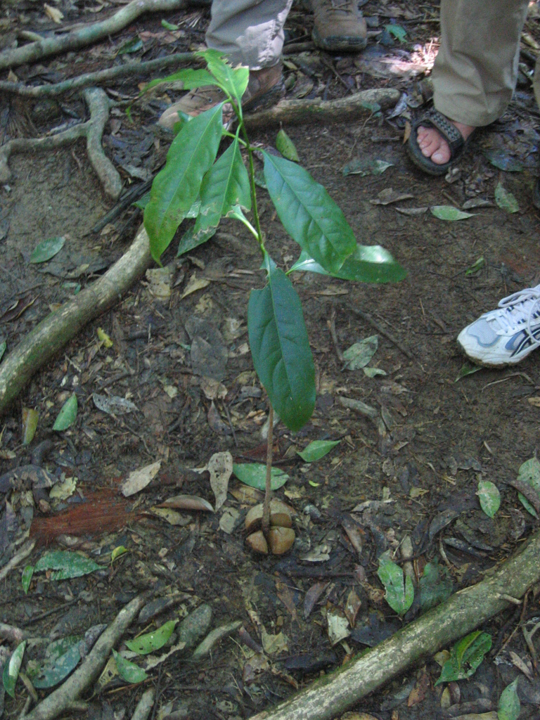 Fruit and seedling of an Idiospermum australiense plant (also called Idiot fruit).